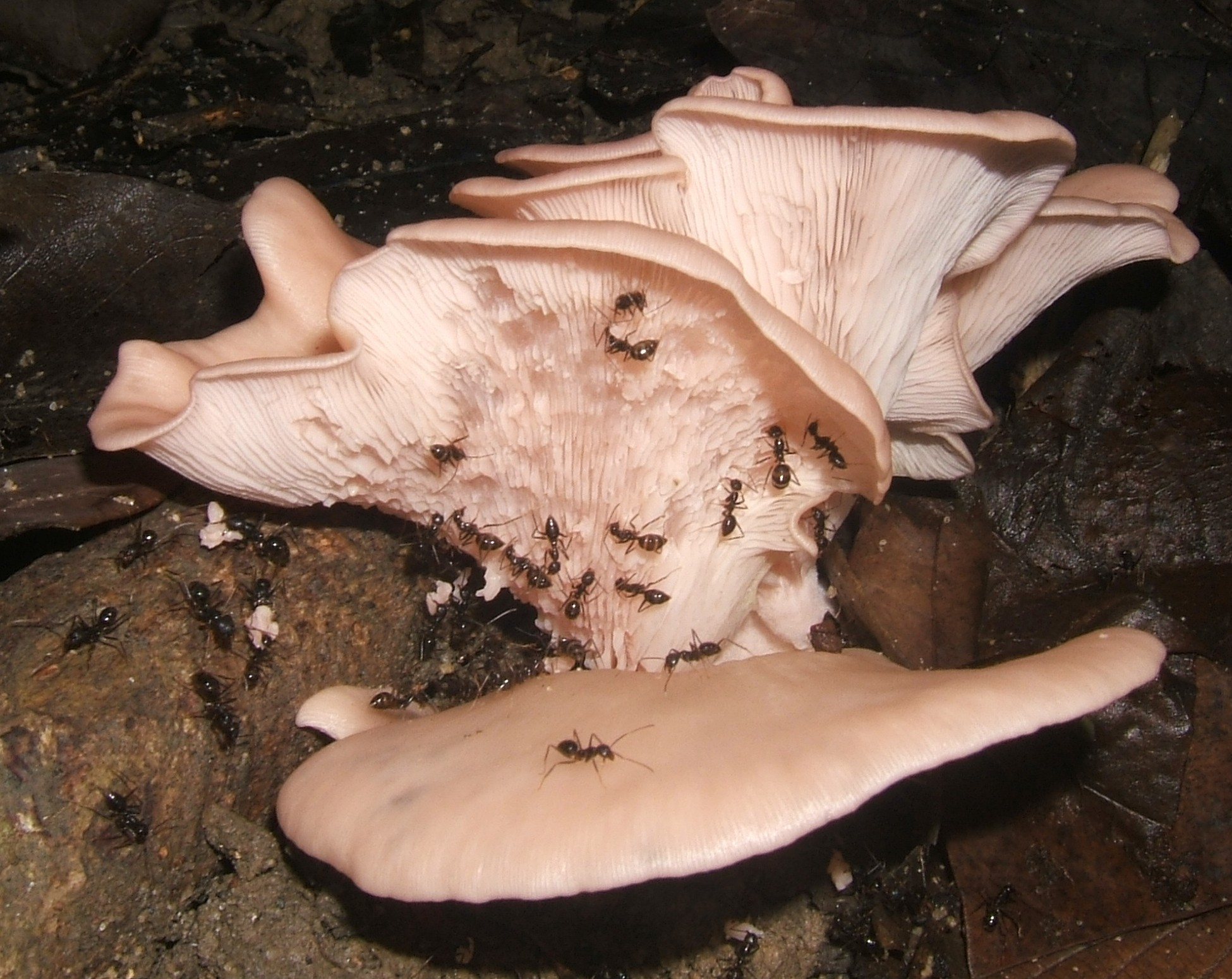 A photograph of the ant Euprenolepis procera feeding on a Pleurotus mushroom